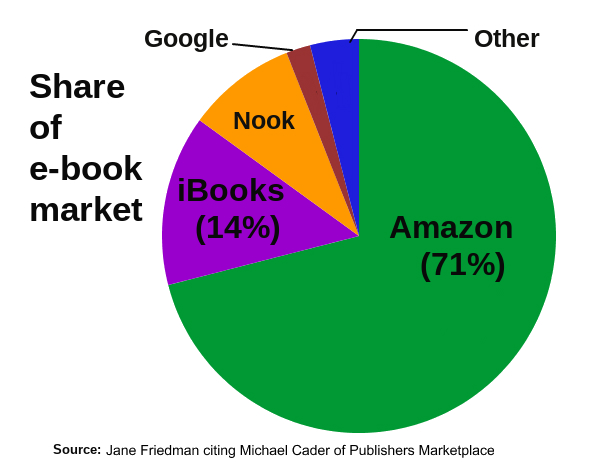 owns about 70% of the e-book market, according to publishing guru Jane Friedman, citing statistics from Michael Cader of Publishers Marketplace, in September 2017. Source: Jane Friedman